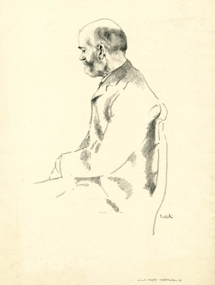 Portrait of William Morfill (1834–1909), Professor of Russian at the University of Oxford.